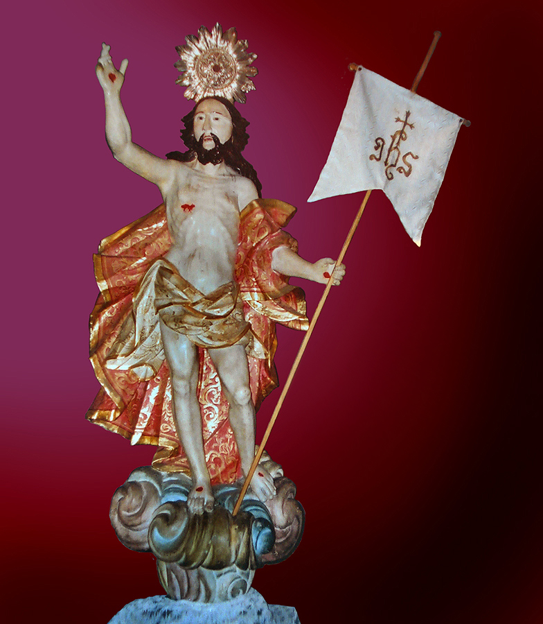 Cristo ressurecto